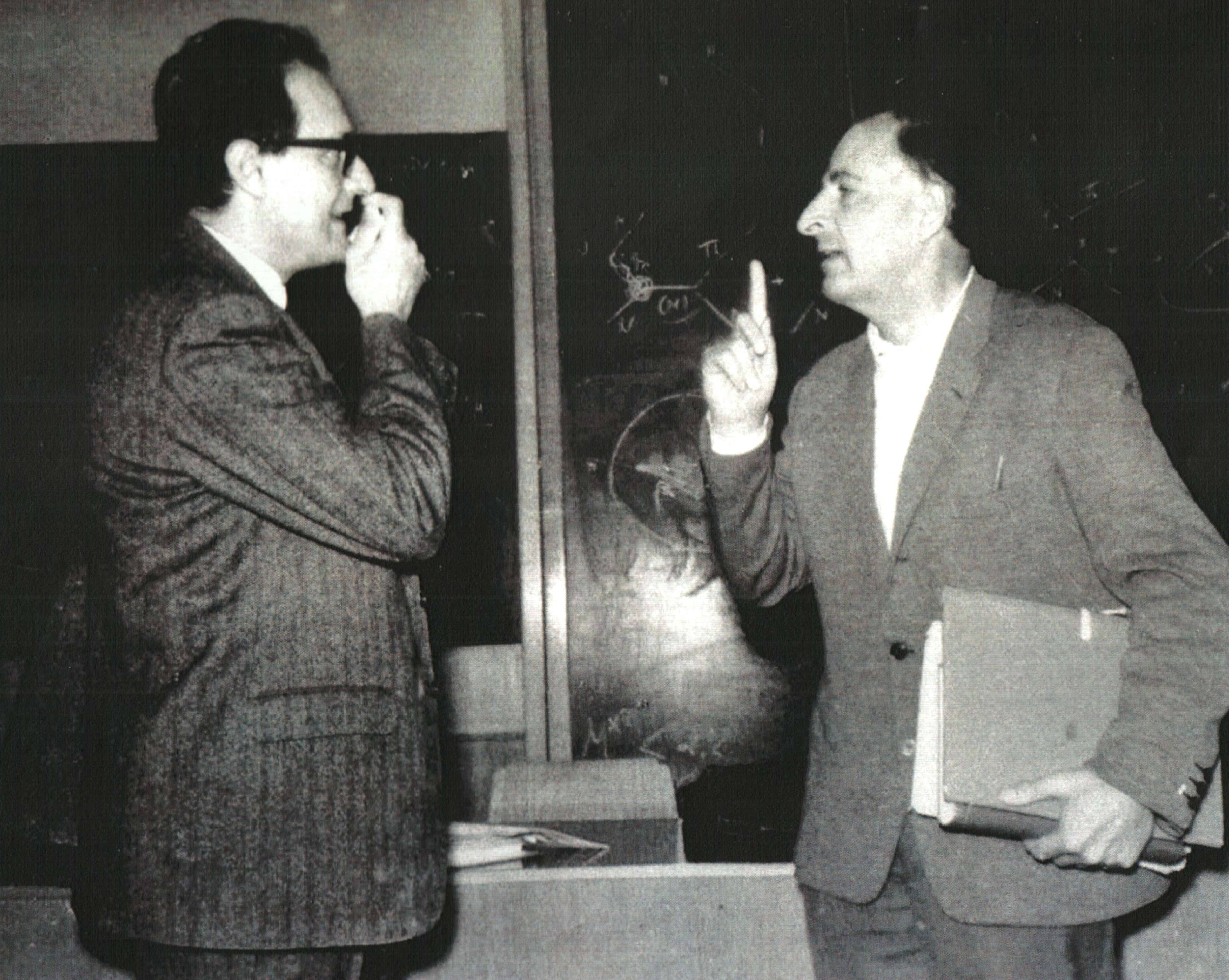 Carlo Franzinetti e Bruno Pontecorvo discussing